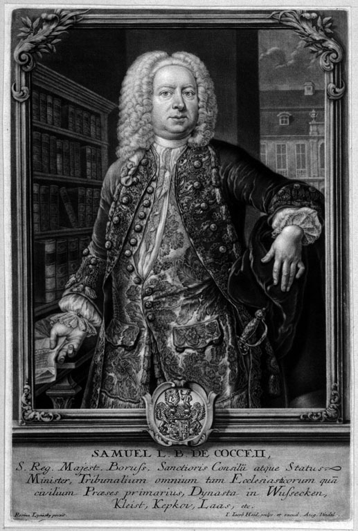 The portrait of German jurists and official Samuel von Cocceji (1679—1755)